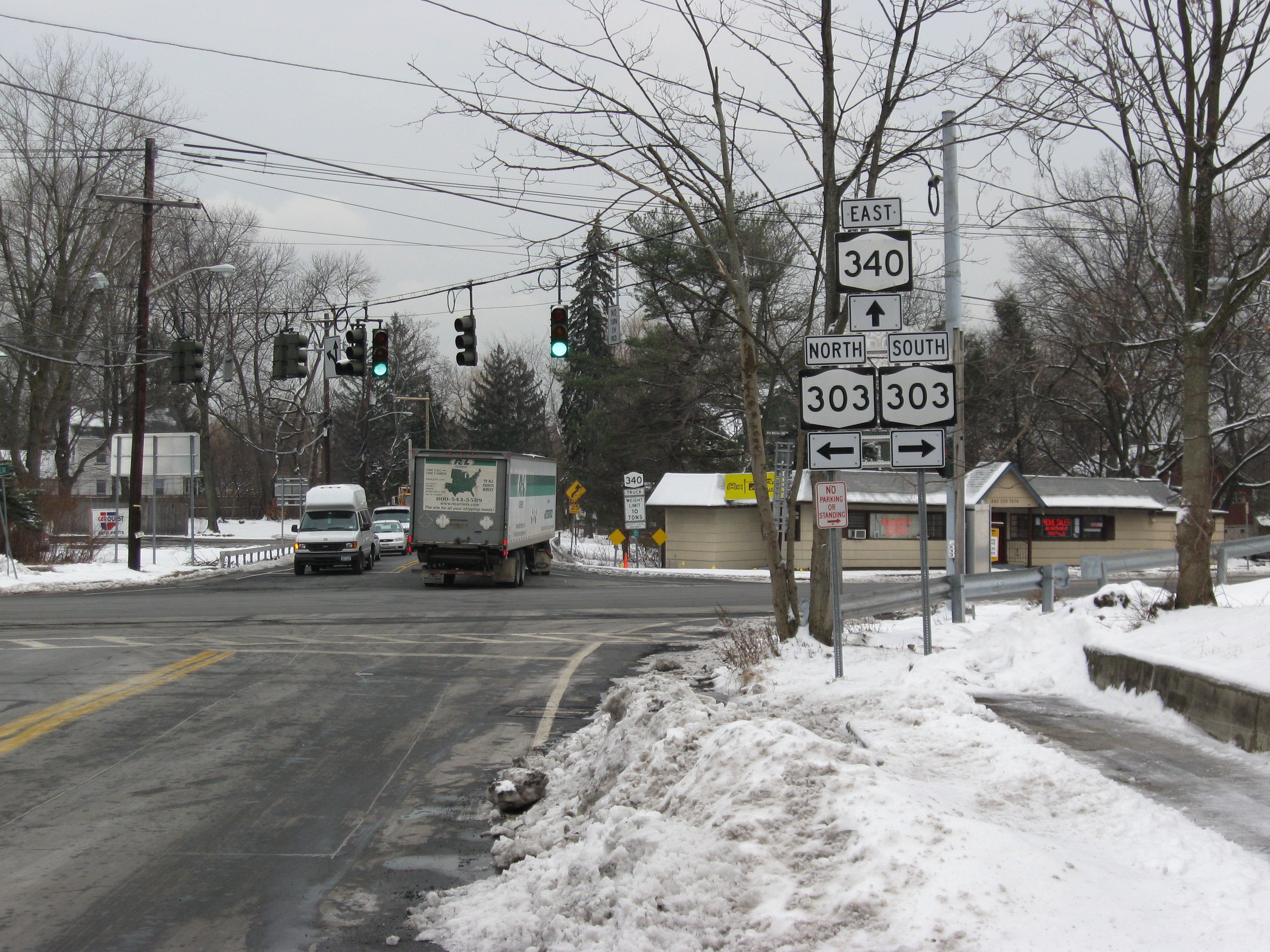 The signed northwestern terminus of New York State Route 340 at New York State Route 303 in Orangeburg, New York as seen from Orangeburg Road.